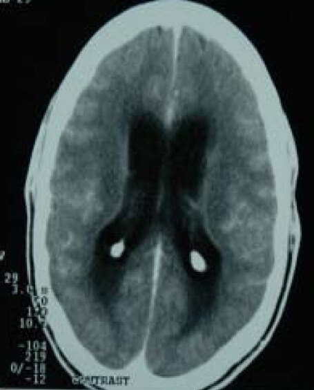 Figure 1. Brain computed tomography scan of case 2 showing dilated ventricles and calcification of choroids plexus.